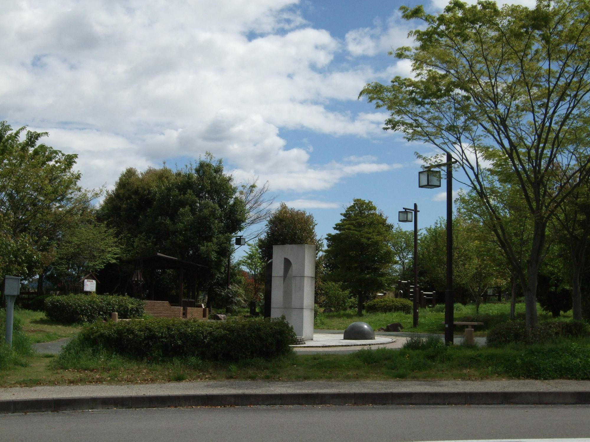 Park at the Seki Service Area